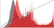 Histogram made of Sunflower